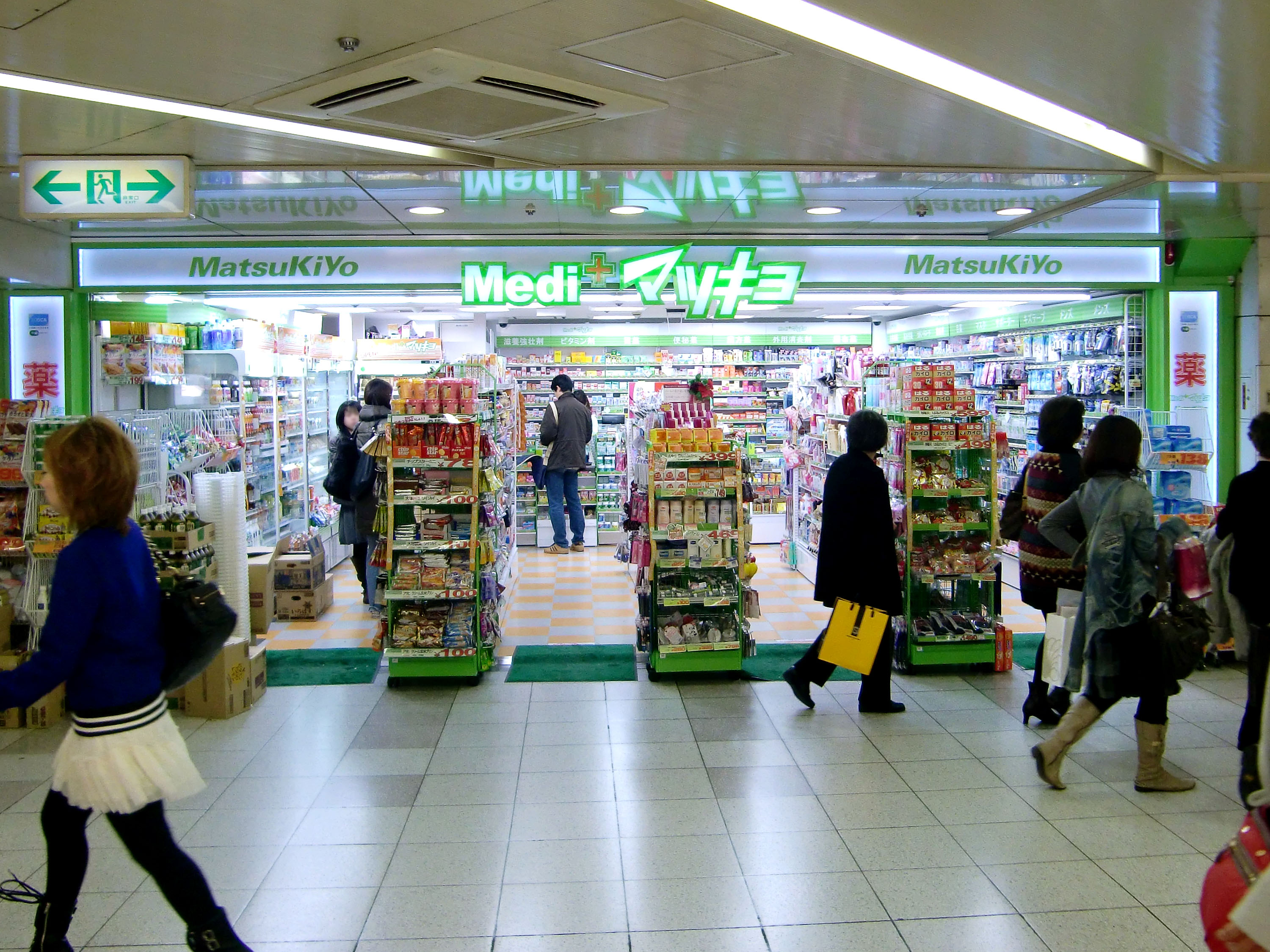 Medi+MatsuKiyo Umechika,3 Umeda Kita-Ku Osaka-City Osaka Japan.